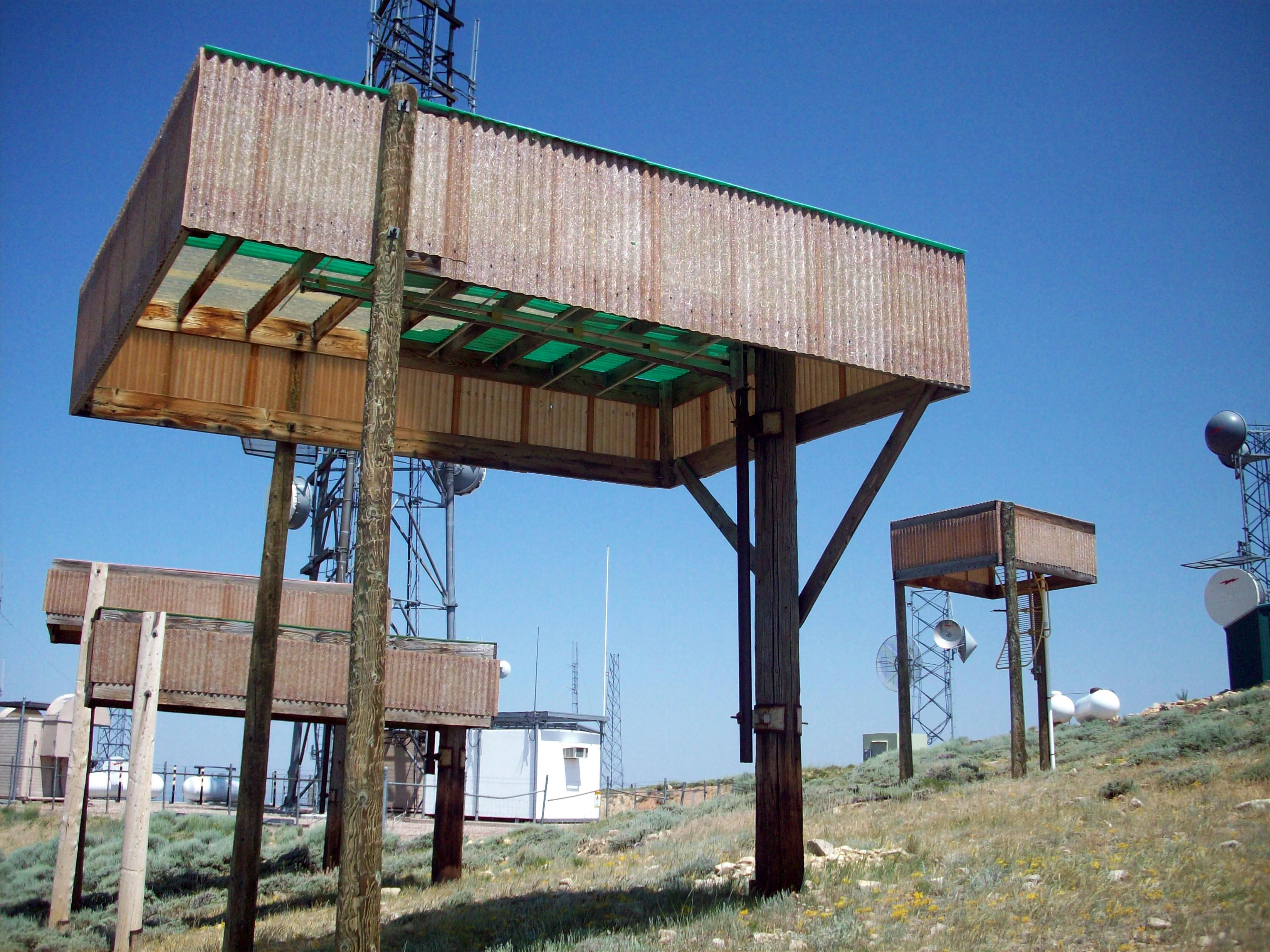 Various transmitters on Medicine Butte, Wyoming. Note, the yagi antennas under the structures are there to protect them from snow damage.